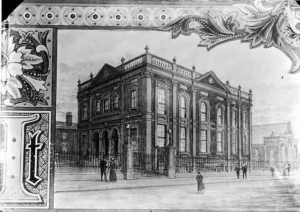 1 negative : glass, dry plate, b&w ; 12 x 16.5 cm.